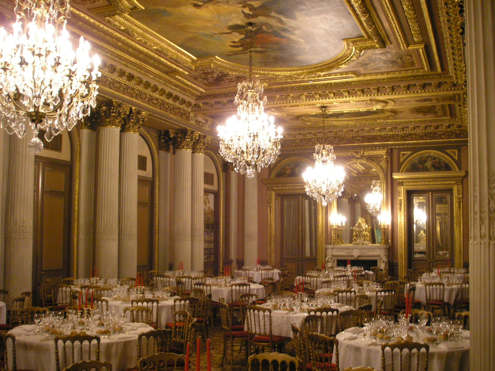 The Salon Napoleon in the Westin Paris Hotel at rue de Castiglione.